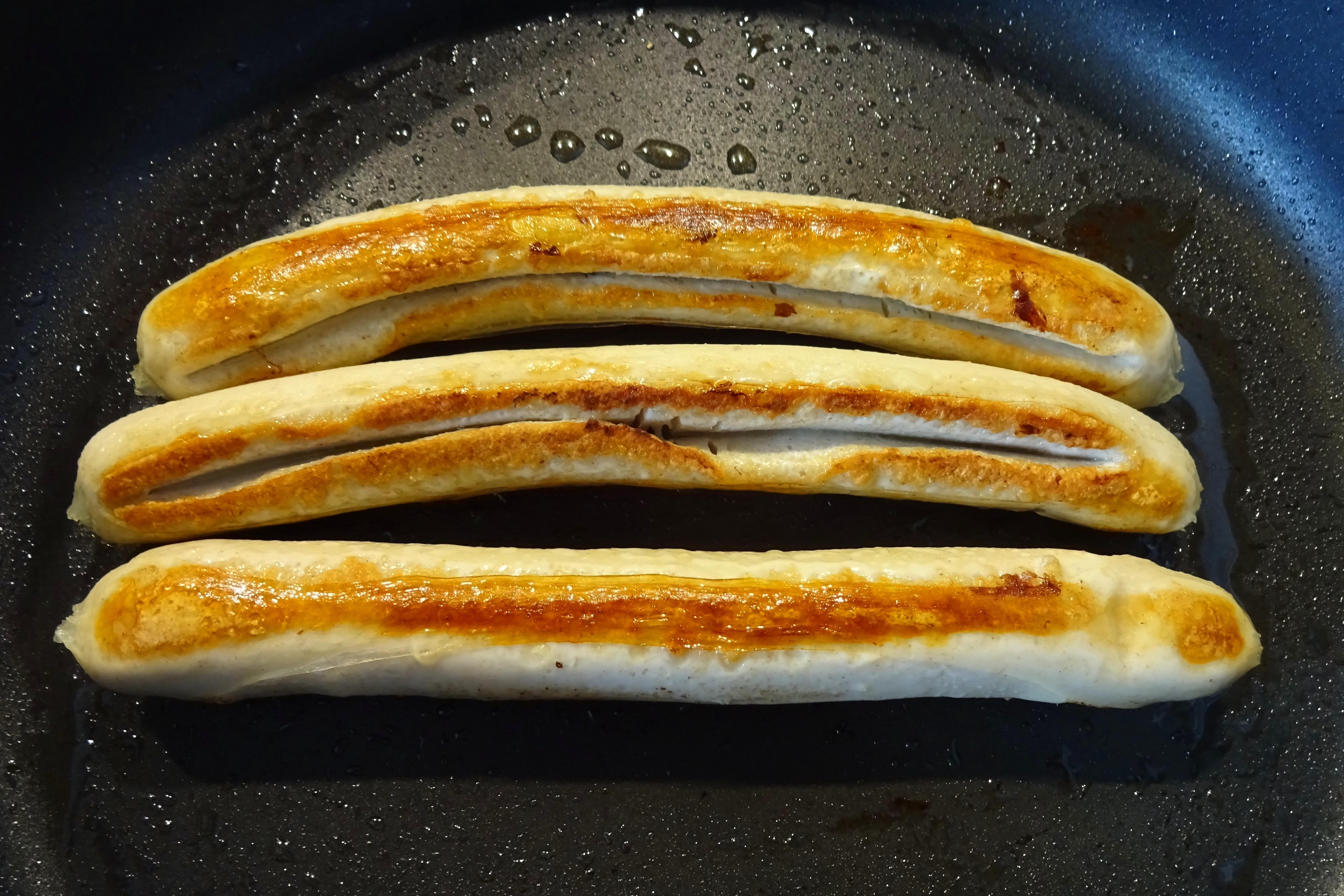 Fish sausage from finely minced catfish. The sausage is composed of: 75 % catfish (Clarias gariepinus , aquaculture), water, canola oil, onion, salt, stabilizer diphosphate, spices, cane sugar, flavoring, dextrose, spice extract, in protein intestinal. The Bratwurst easily cut and fry slowly over a low heat.